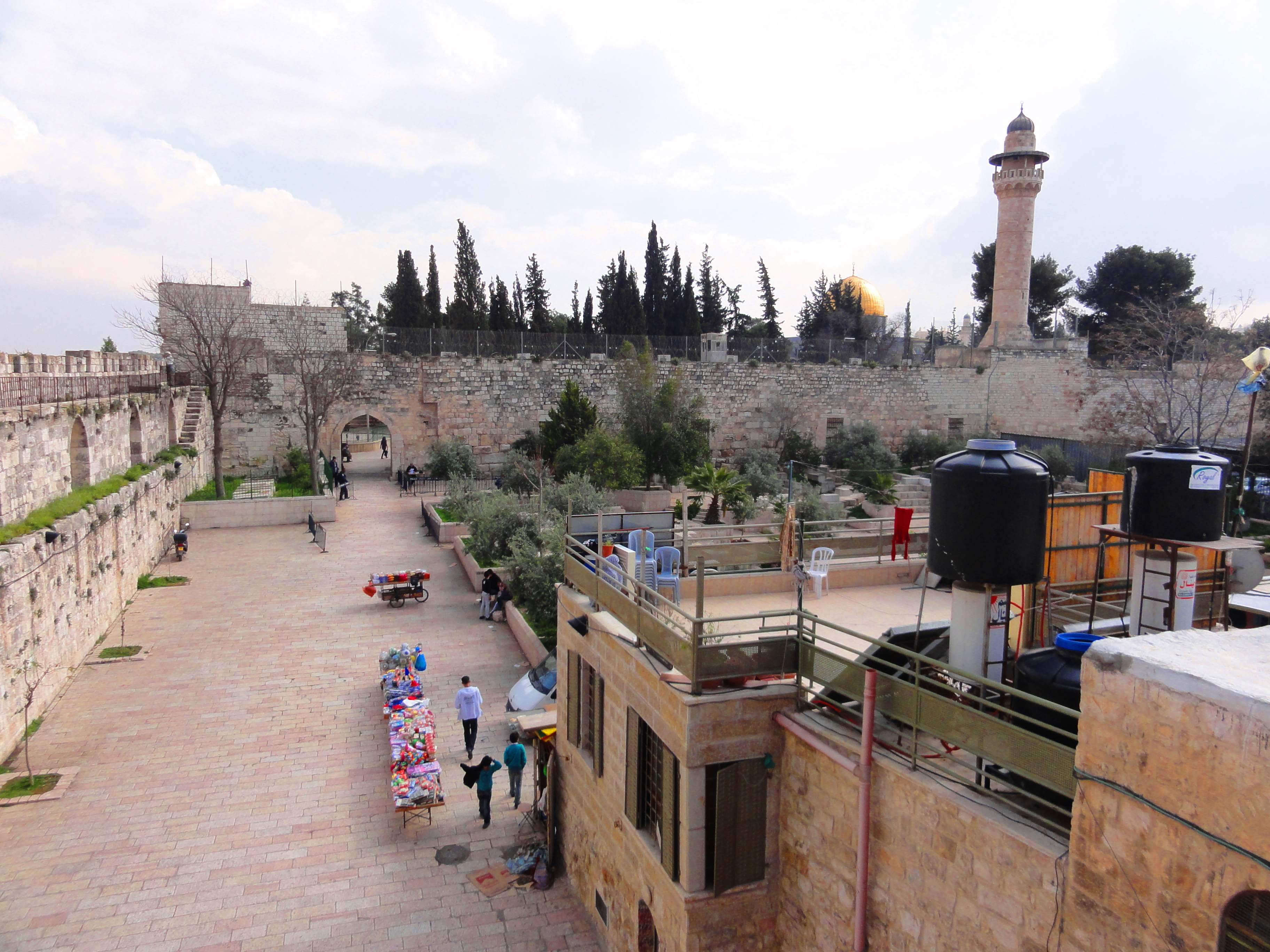 Old Jerusalem, El-Ghazali Square (near lions gate), high angle shot of Tribes Gate from the Ramparts. DSC04172 Jerusalem